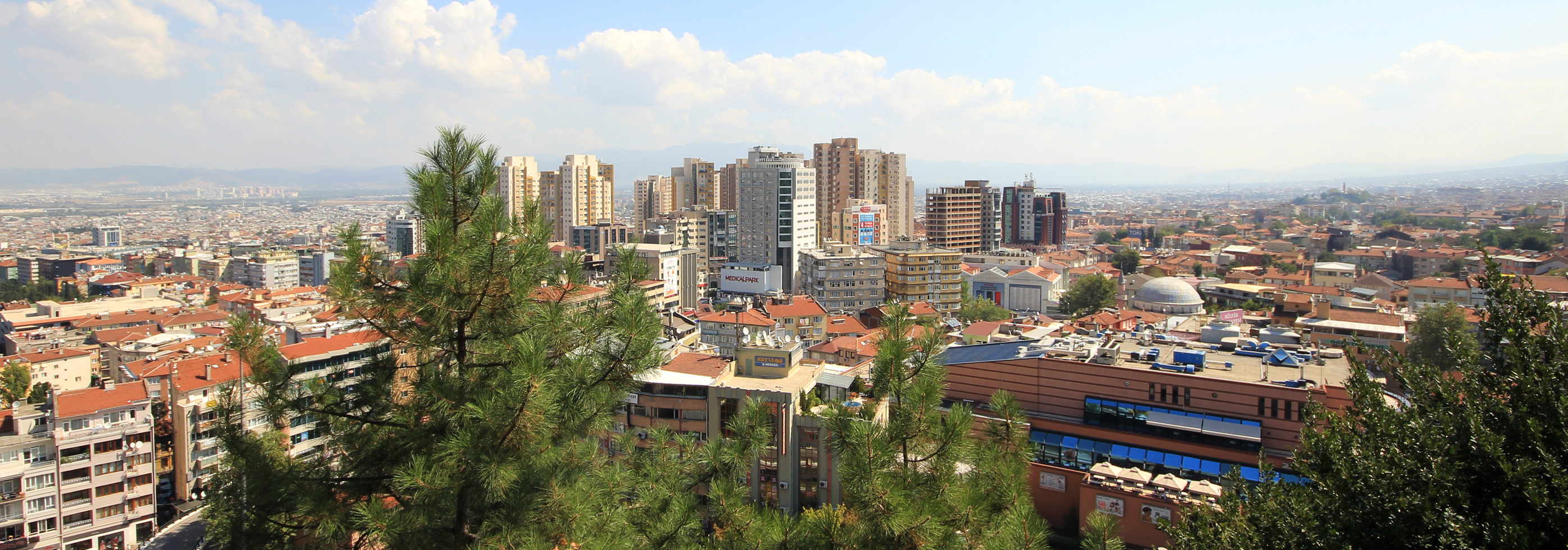 A view of the city center of Bursa, Turkey.